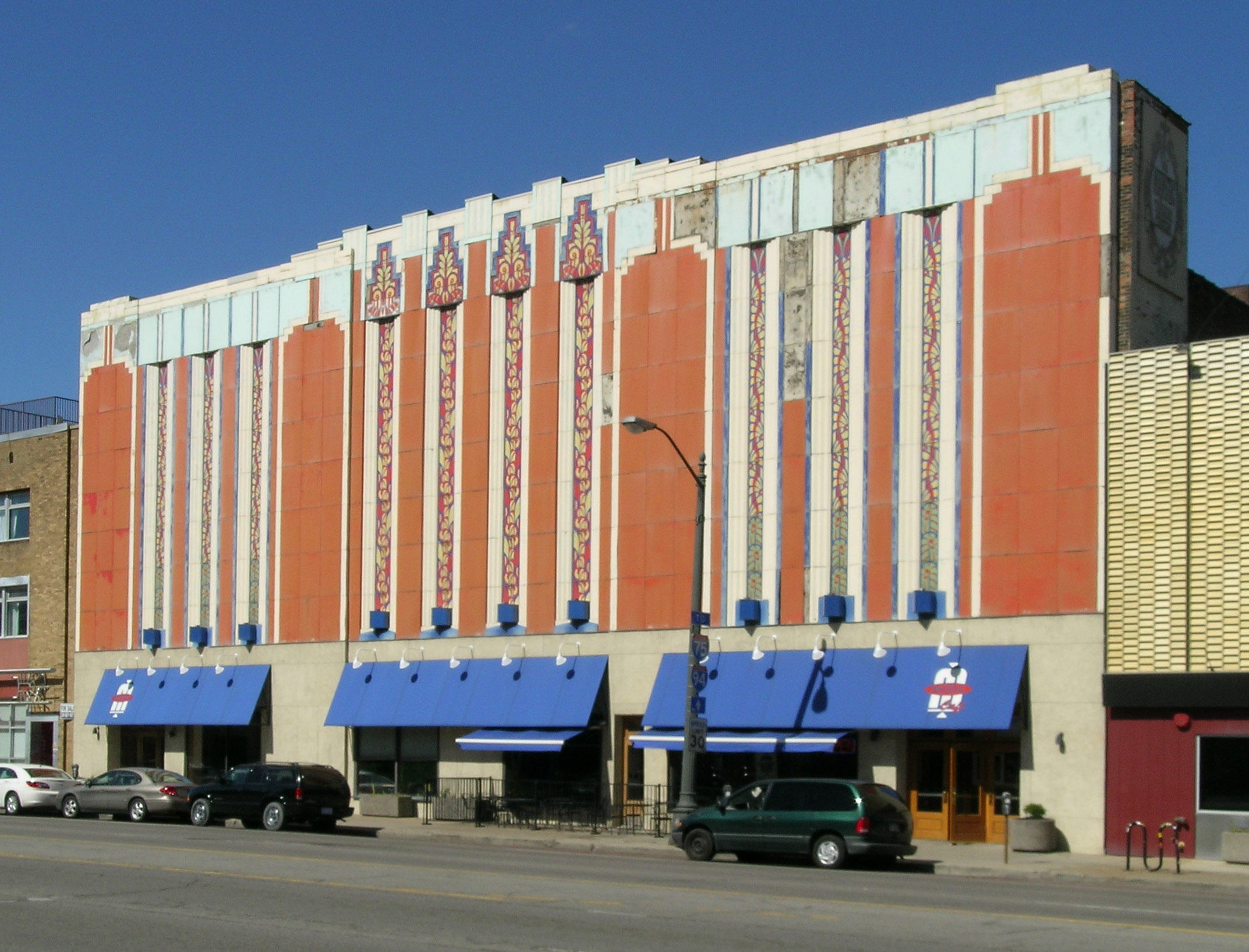 Majestic Theater, Detroit MI